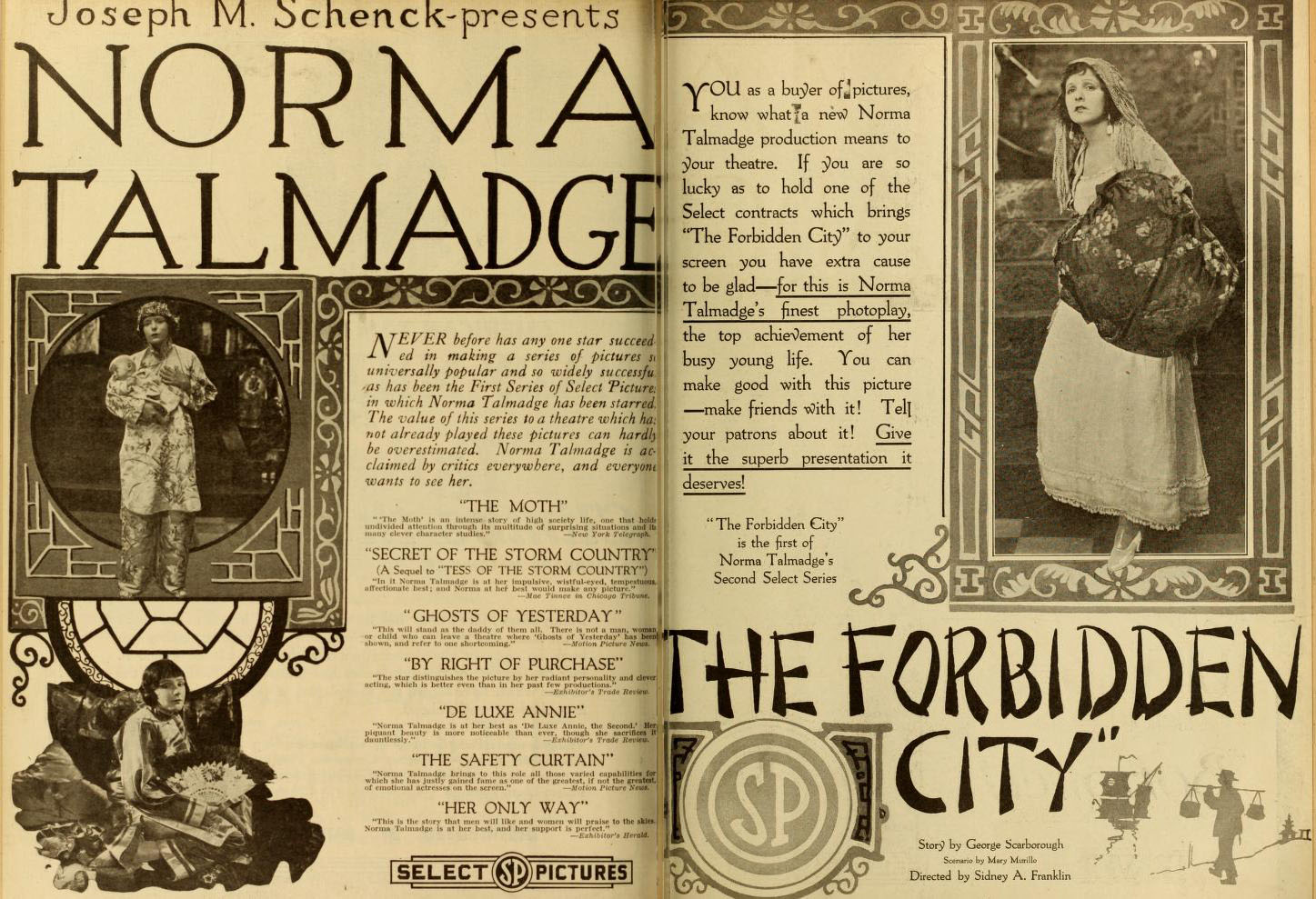 Advertisement for the American drama film The Forbidden City (1918) with Norma Talmadge in Moving Picture World, Sept 1918.